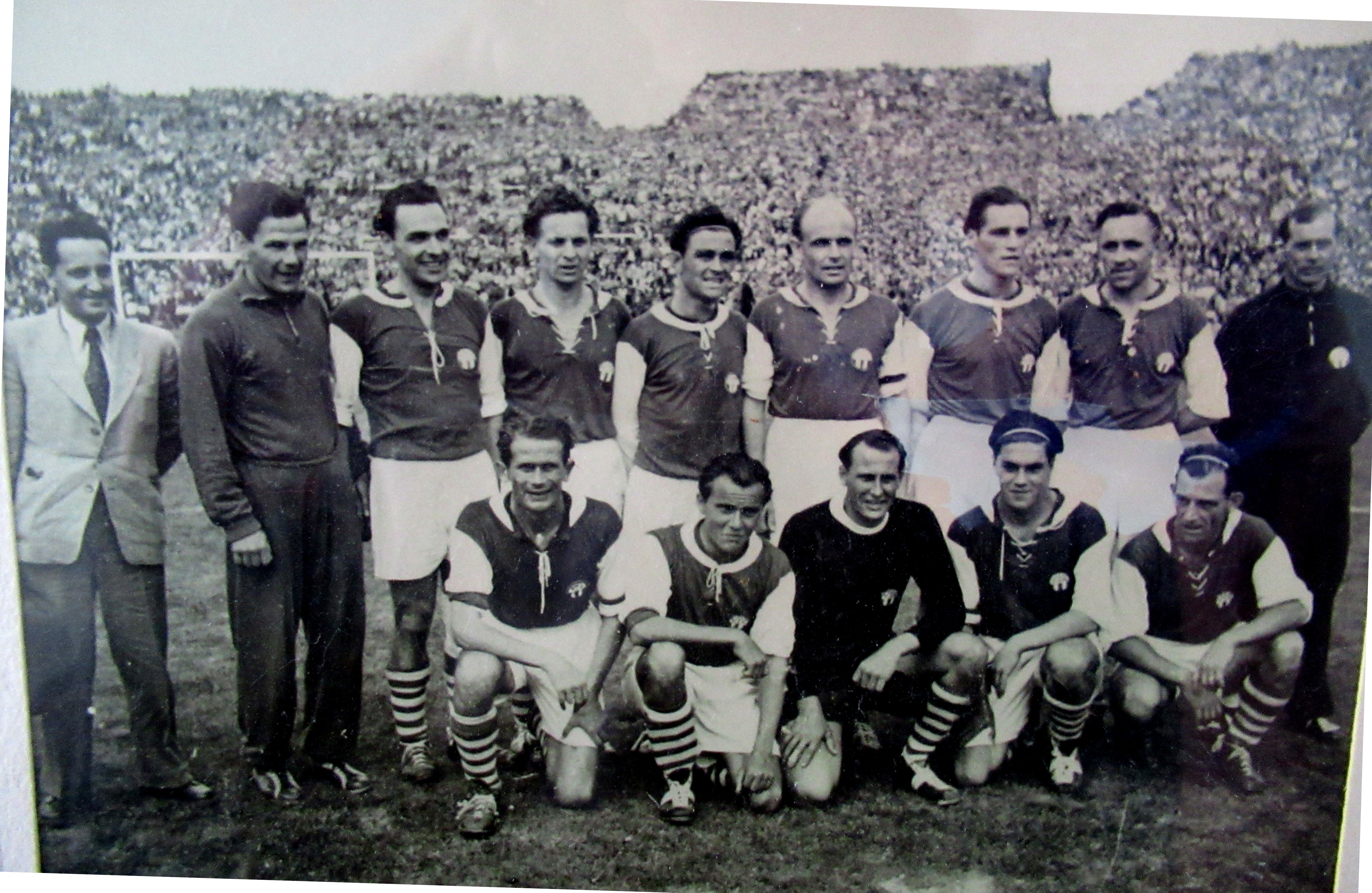 Team picture of VfR Schwenningen from the final of the German amateur football championship against Cronenberger SC, June 22, 1952, Südweststadion Ludwigshafen, Germany.